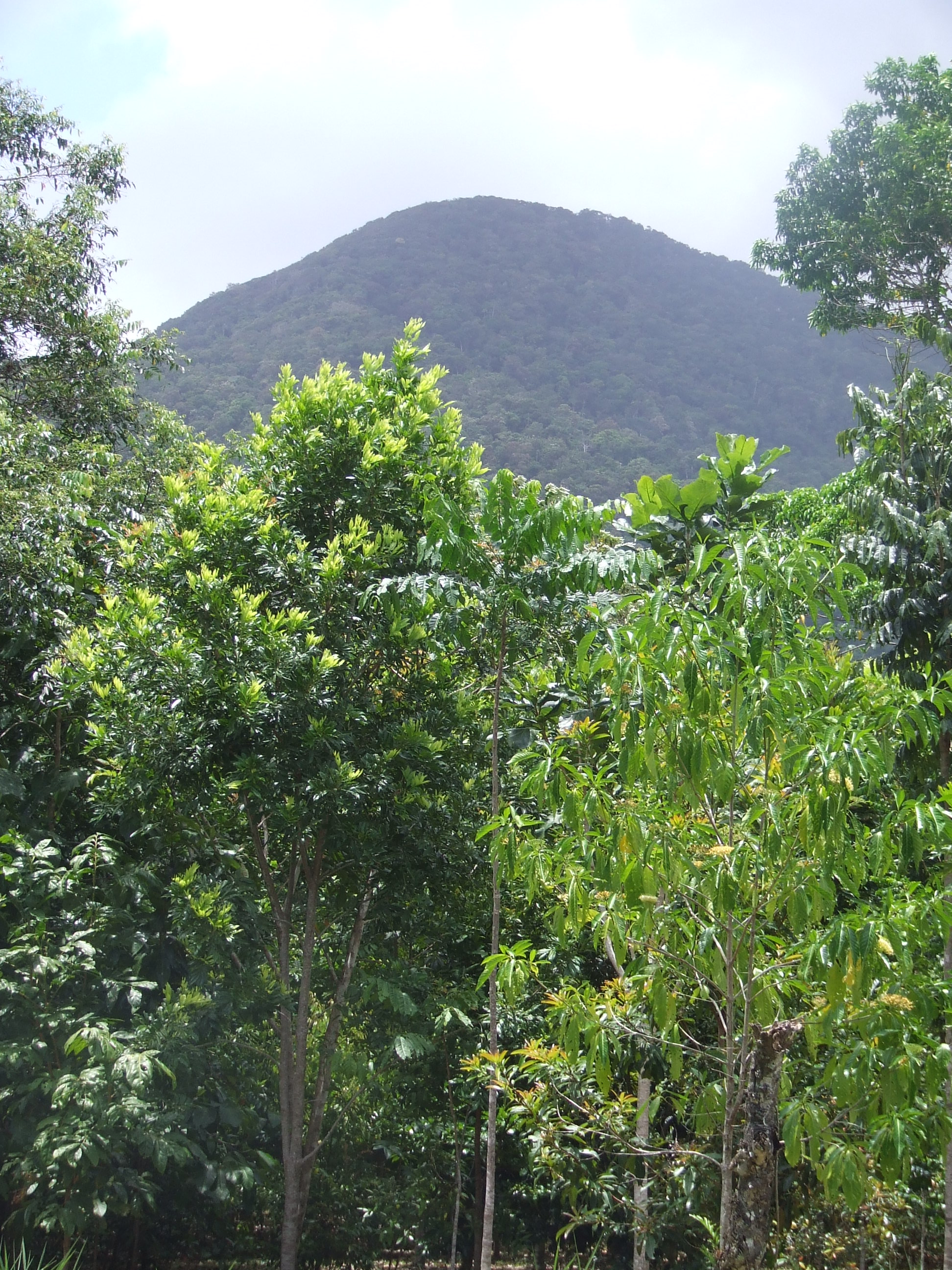 Viewed ffrom the main highway.